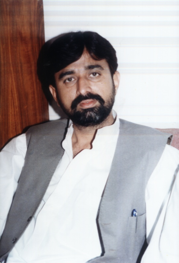 Image of the late Murad Abro